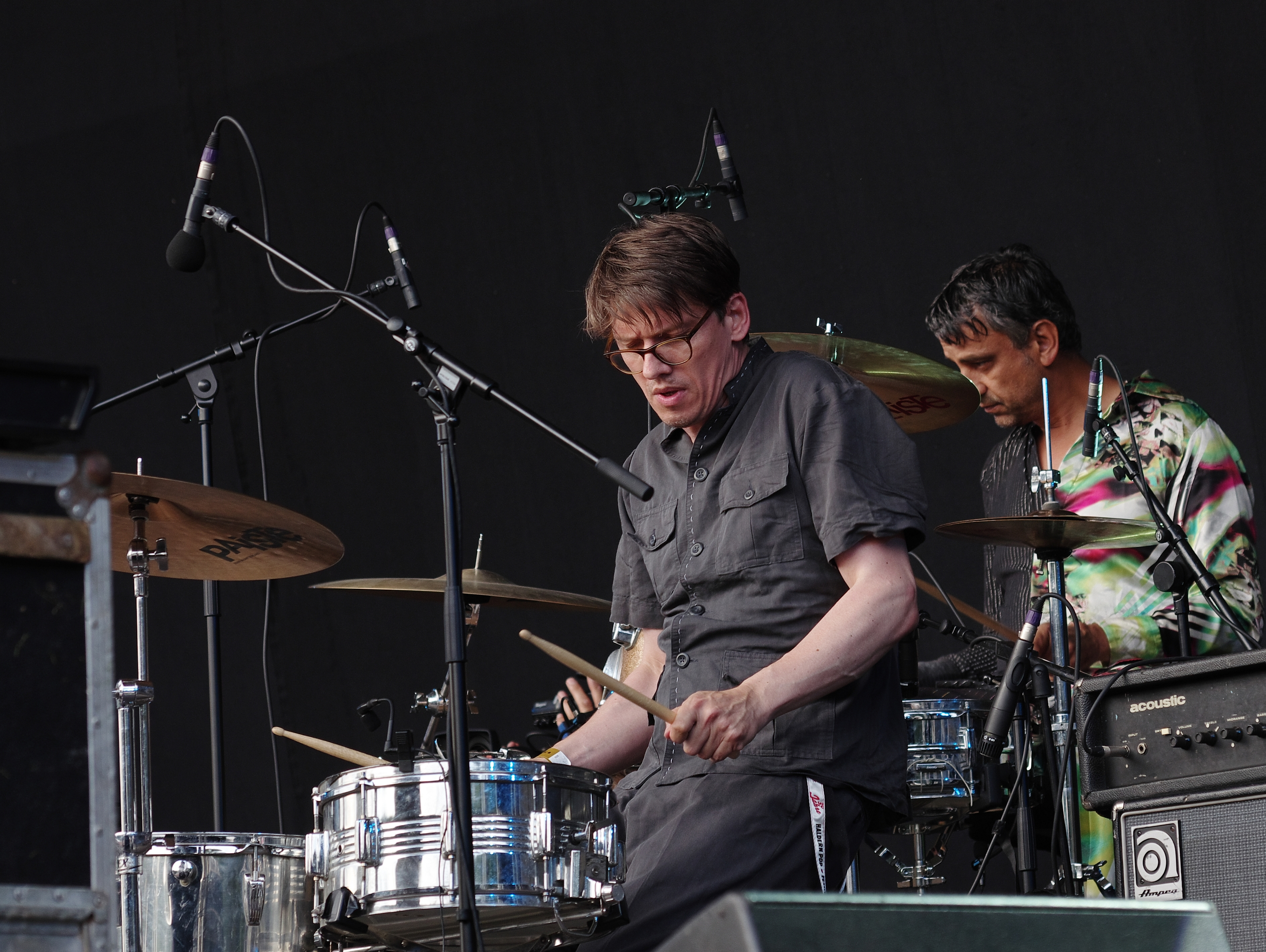 Stephan Rath of Die Goldenen Zitronen at Haldern Pop 2013